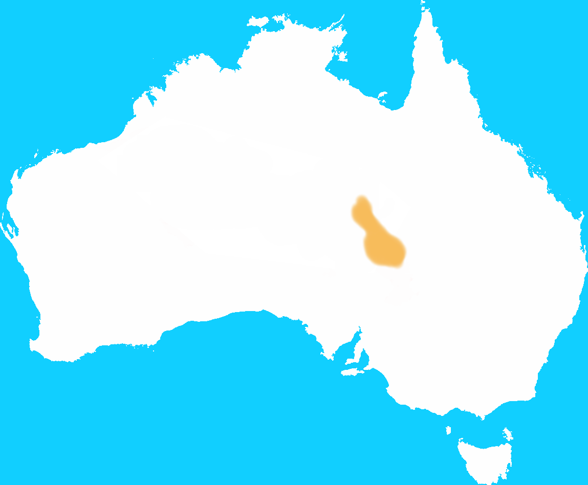 Historic distribution of the Desert rat kangaroo (Caloprymnus Campestris).